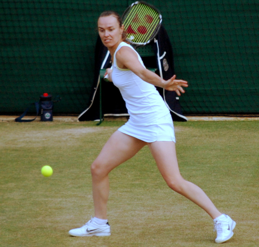 Ladies Invitation Doubles. Lindsay Davenport & Martina Hingis defeated Natasha Zvereva & Gigi Fernandez 6-2 6-2, and went on to win the title. Day 9 of Wimbledon 2011.